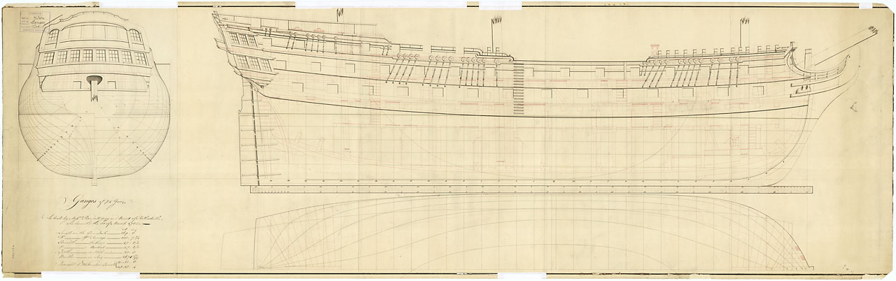 The body plan with stern board outline, sheer lines with inboard detail, and longitudinal half-breadth for Ganges (1782), a 74-gun Third Rate, two-decker as built at Rotherhithe by Messrs Randall & Co. The ship, after launch on 30 March 1782, was completed at Deptford Dockyard, before being coppered at Woolwich Dockyard in June 1782.